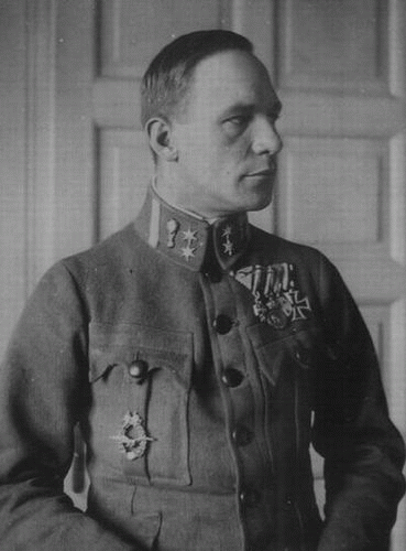 First Lieutenent of the Air Corps Josef Brunner.